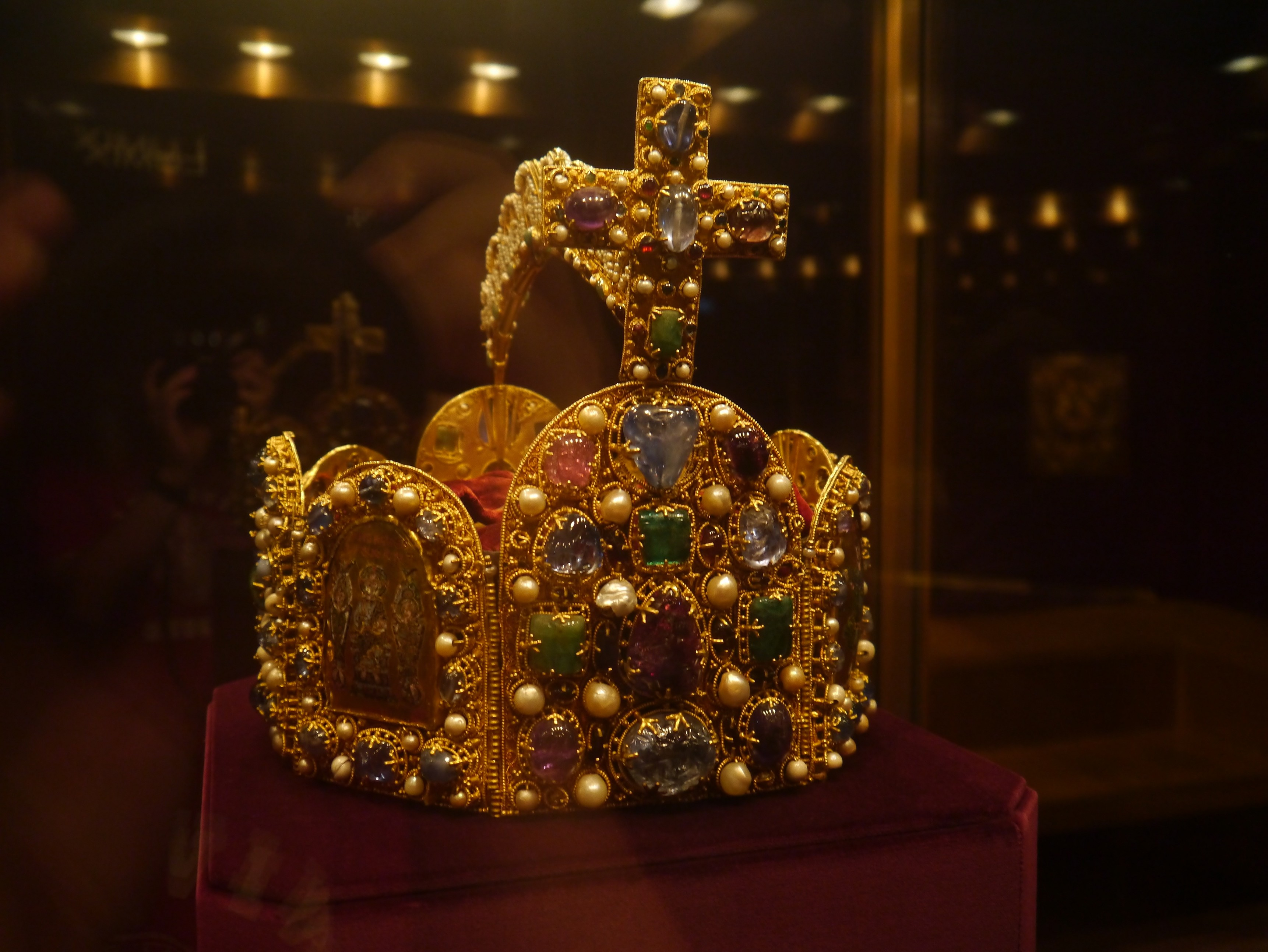 Crown of the Holy Roman Empire at the Treasury of the Hofburg, Vienna